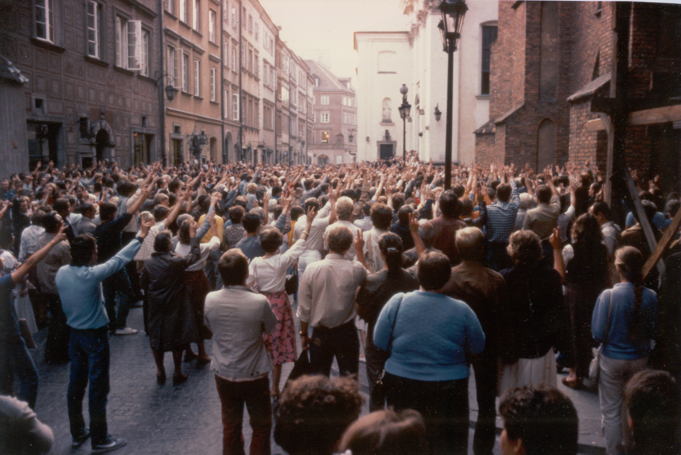 Solidarity demonstration in Warsaw, Poland, taken on August 31, 1984. Scanned from an 8x10, originally taken on 35 mm Ektachrome. Solidarność